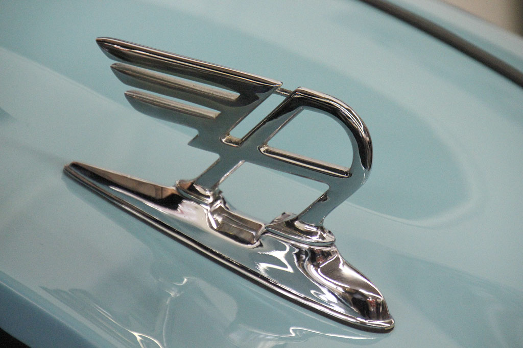 1951 Austin A90 Atlantic Cabriolet_IMG_3670